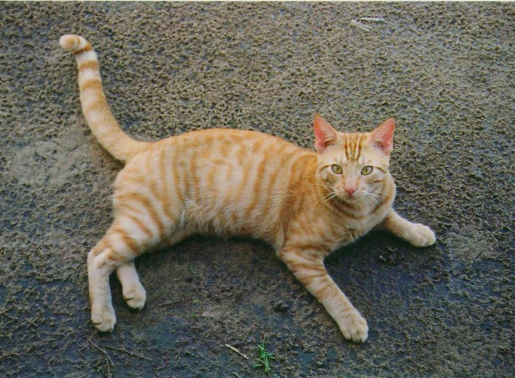 A full body shot of a common tabby house cat with its distinctive orange stripes. Picture was taken in Suriname, South America with a manual Canon "Rebel 2000" 35mm camera, then scanned into a computer and modified using a Paint Shop program on a laptop computer.